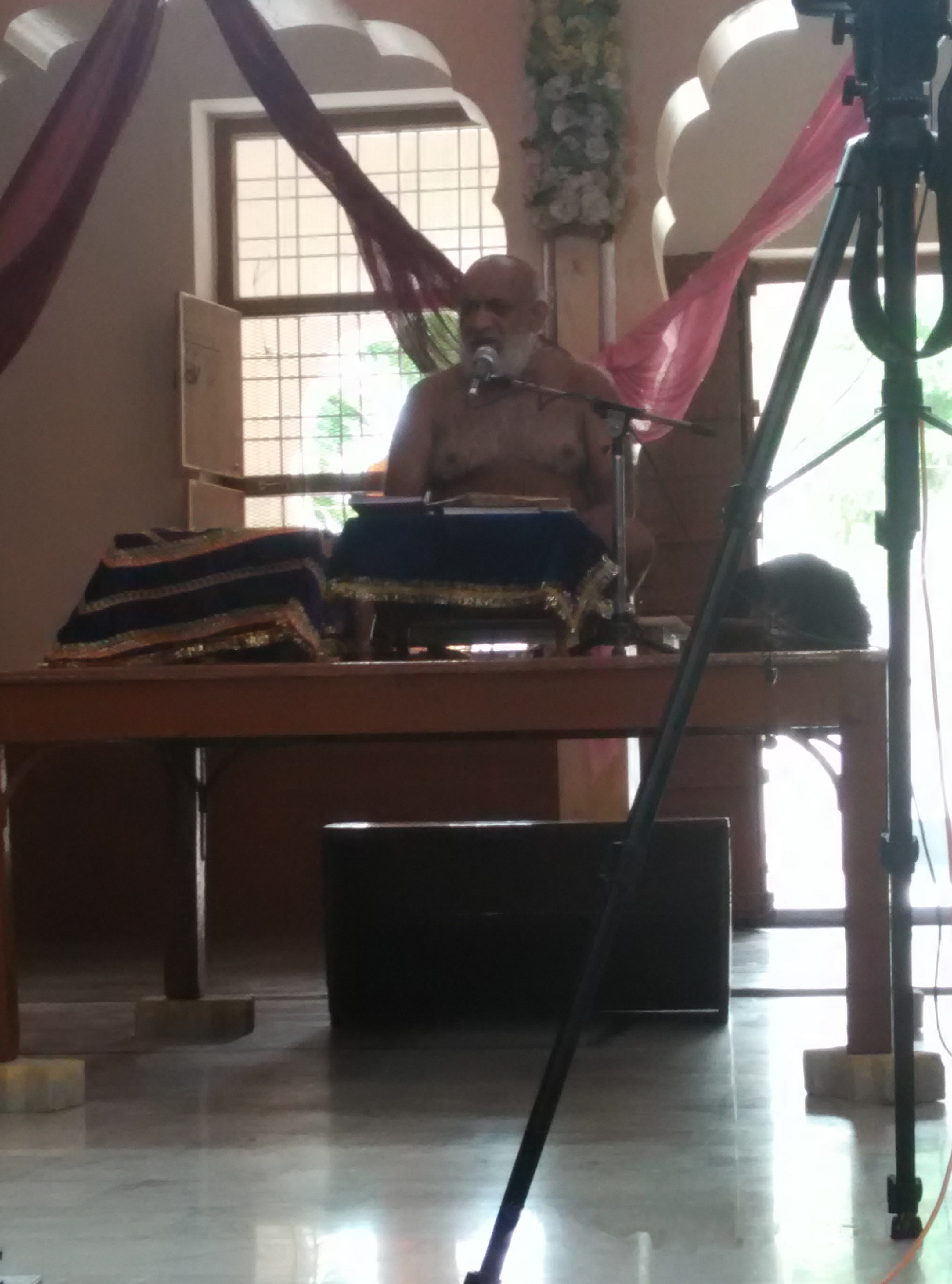 Muni Sudhasagar